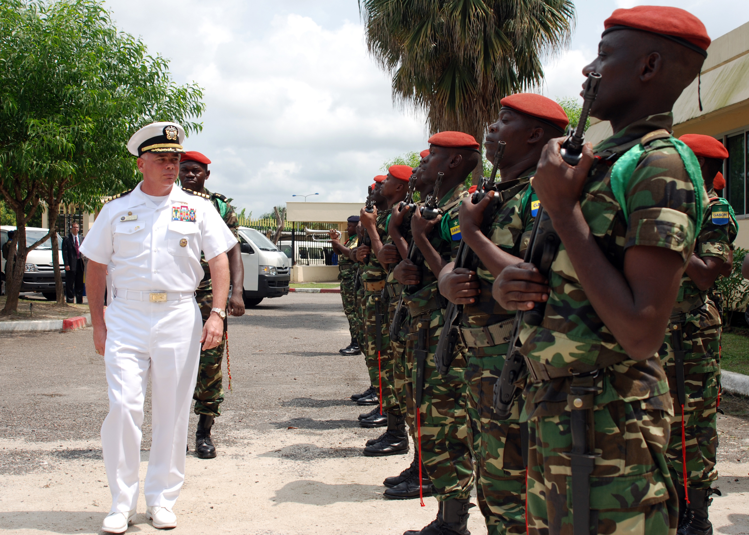 LIBREVILLE, Gabon (Jan. 8, 2008) Capt. John B. Nowell Jr., commodore, Africa Partnership Station (APS) is greeted by Gabonese Army as he arrives at a scheduled meeting with General Ntori Longo, chief of Gabonese Armed Services, about APS. APS is a multi-national effort to bring the latest training and techniques to maritime professionals in nine West and Central African countries, to address common threats of illegal fishing, smuggling and human trafficking. In addition to maritime training, APS will perform more than 20 humanitarian projects in the region. U.S. Navy photo by Mass Communication Specialist 3rd Class Eddie Harrison (Released)